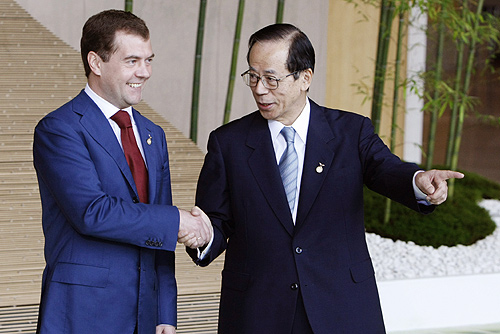 TOYAKO ONSEN, HOKKAIDO, JAPAN. President Medvedev with Japanese Prime Minister Yasuo Fukuda before a business lunch at the G8 summit.